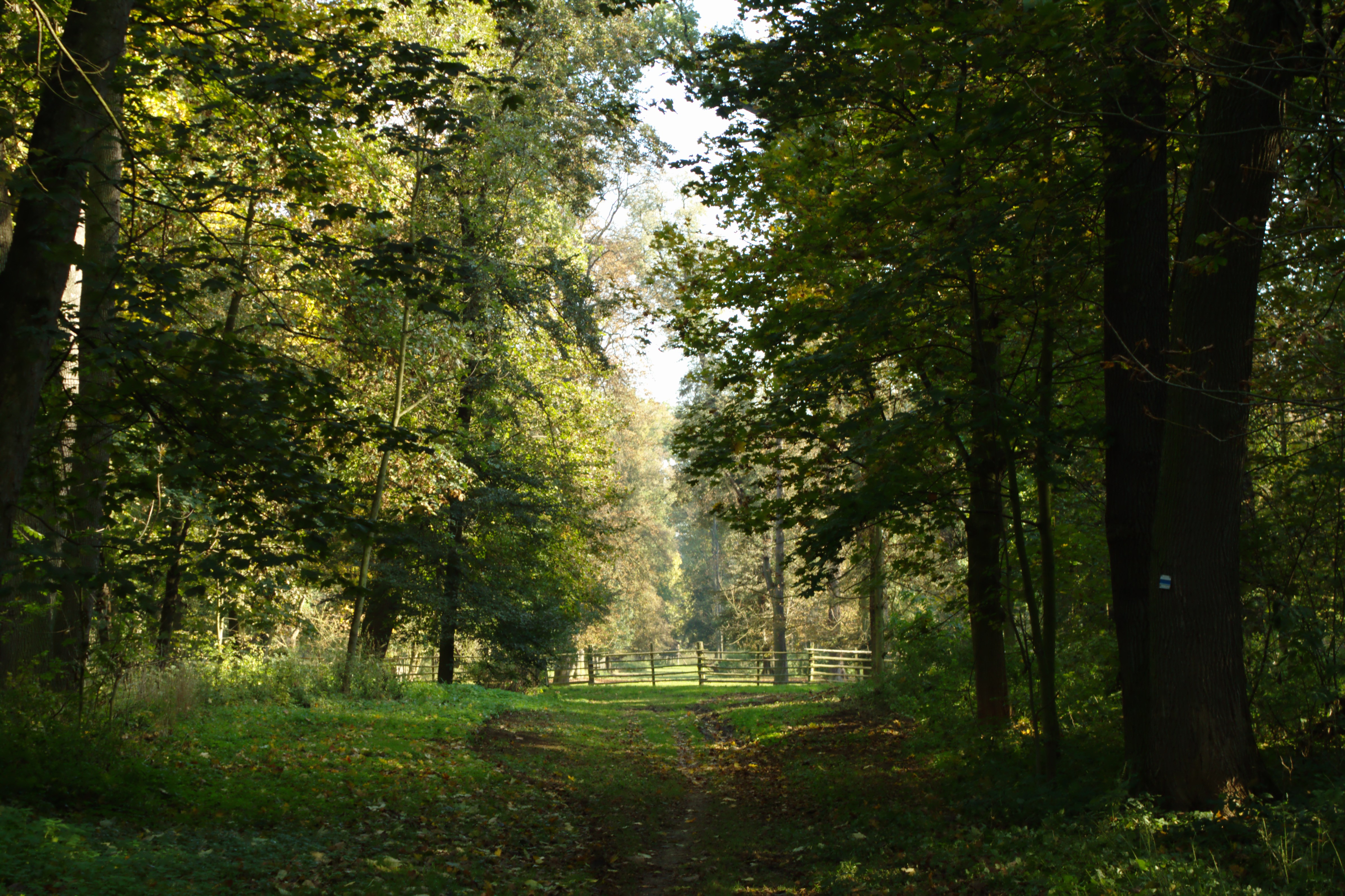 An autumn/fall view of the chateau park in Veltrusy